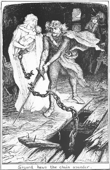 "Sigurd hews the chain asunder", signed illustration by H. J. Ford to Icelandic fairy tale "The Witch in the Stone Boat" (Yellow Book of Fairy Tale, 1897)